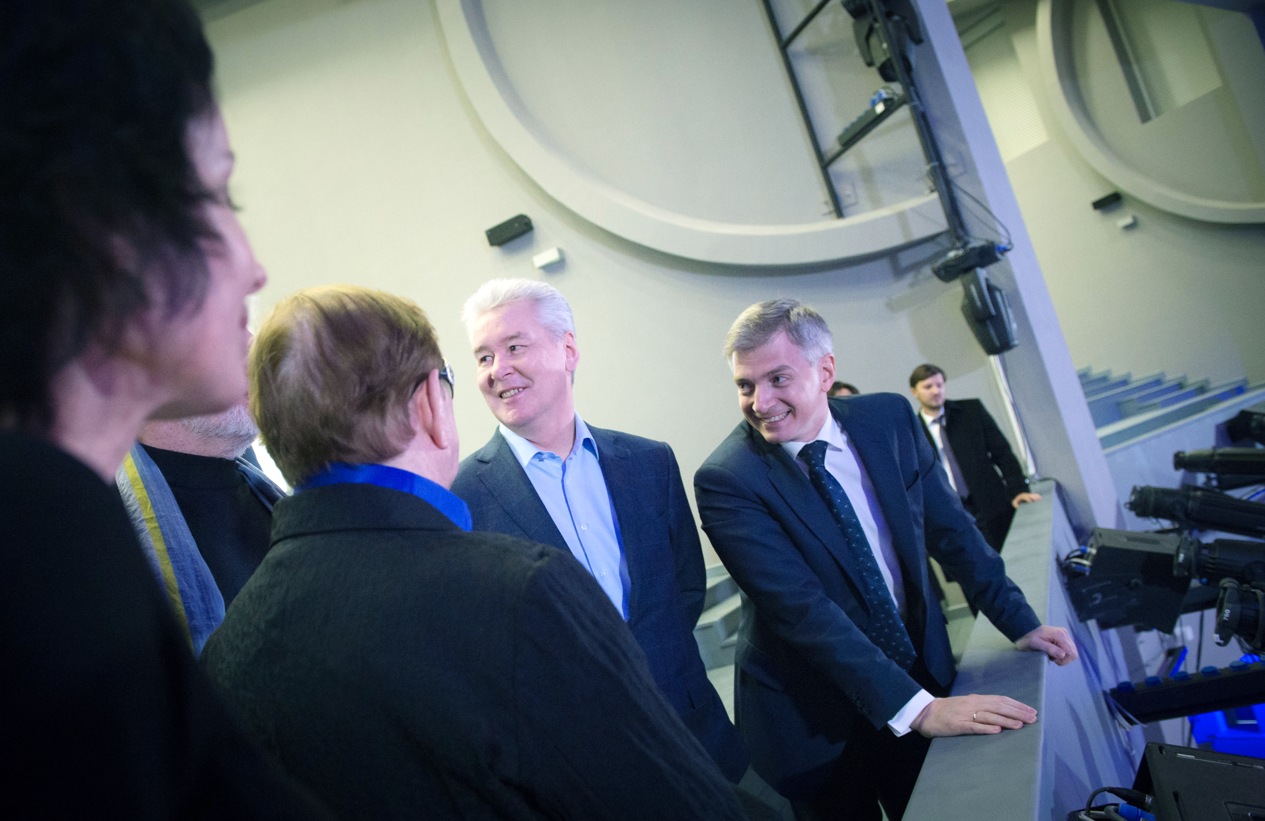 Sobyanin Sergey Semenovich in Rusakov Workers' Club 2015-03-25